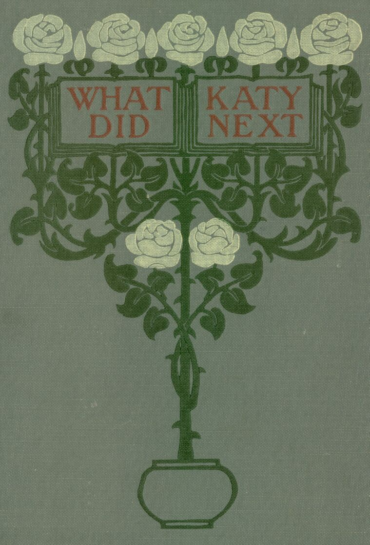 Book cover from the novel What Katy Did Next by Sarah Chauncey Woolsey published under pen name Susan Coolidge.